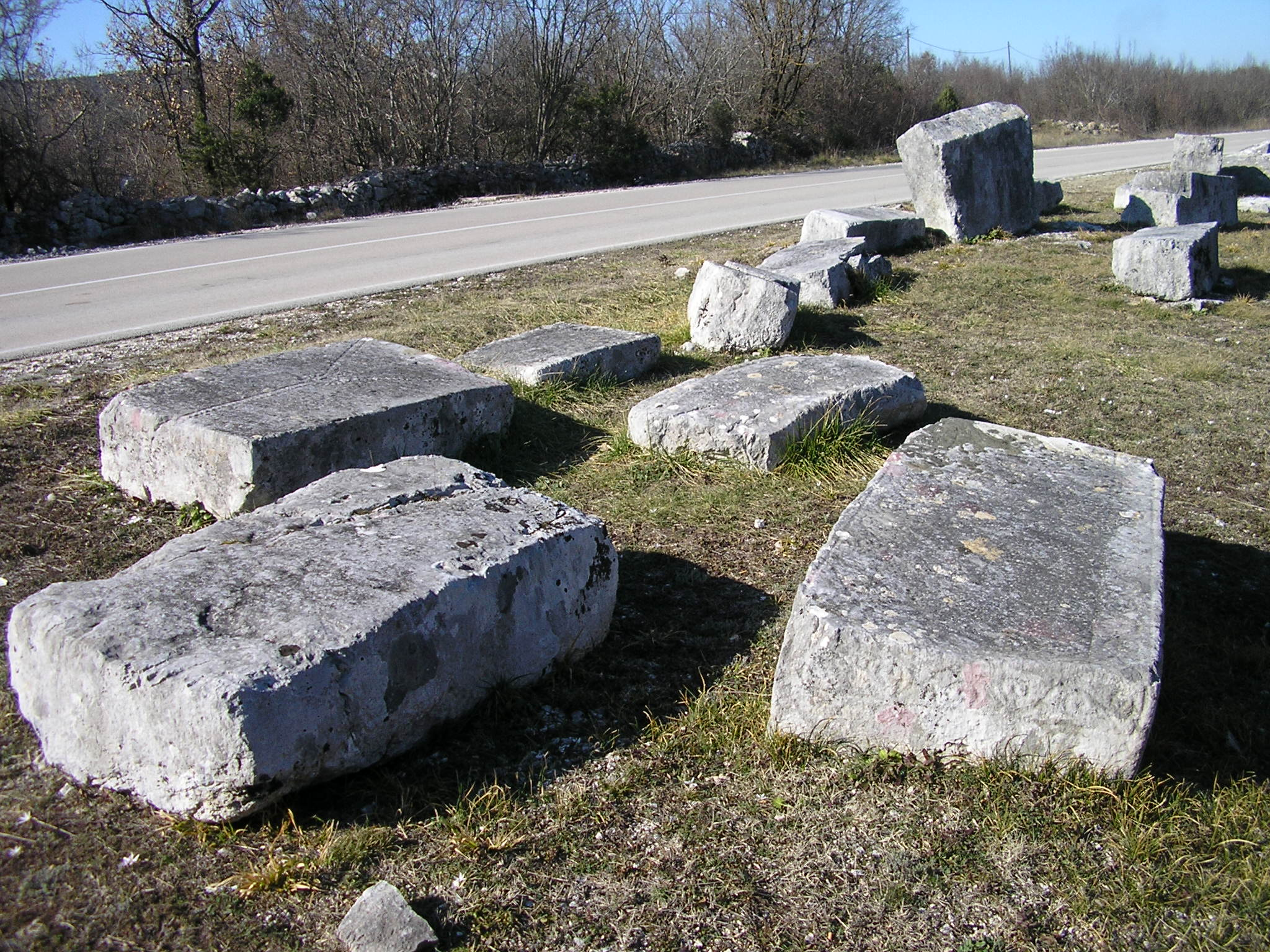 Stećci "Pod Sekulanom" (Zvirići, Ljubuški, BiH)